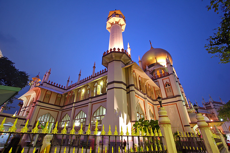 With its massive golden dome and huge prayer hall, the Sultan Mosque is one of Singapore's most imposing religious buildings, and the focal point of Muslims in Singapore. The mosque, designed by Denis Santry, was built in 1928. During fasting month (this year falls on 24-September to 24-October 2006) every evening, sunset time, the mosque provides free dinner for everyone including tourist or passers-by. Location 3 Muscat Street Singapore 198833 Lens: EFs 10-22mm